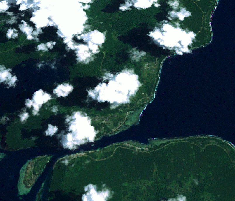 NASA World Wind image of Buka Town, Sohano Island and Buka Airport.